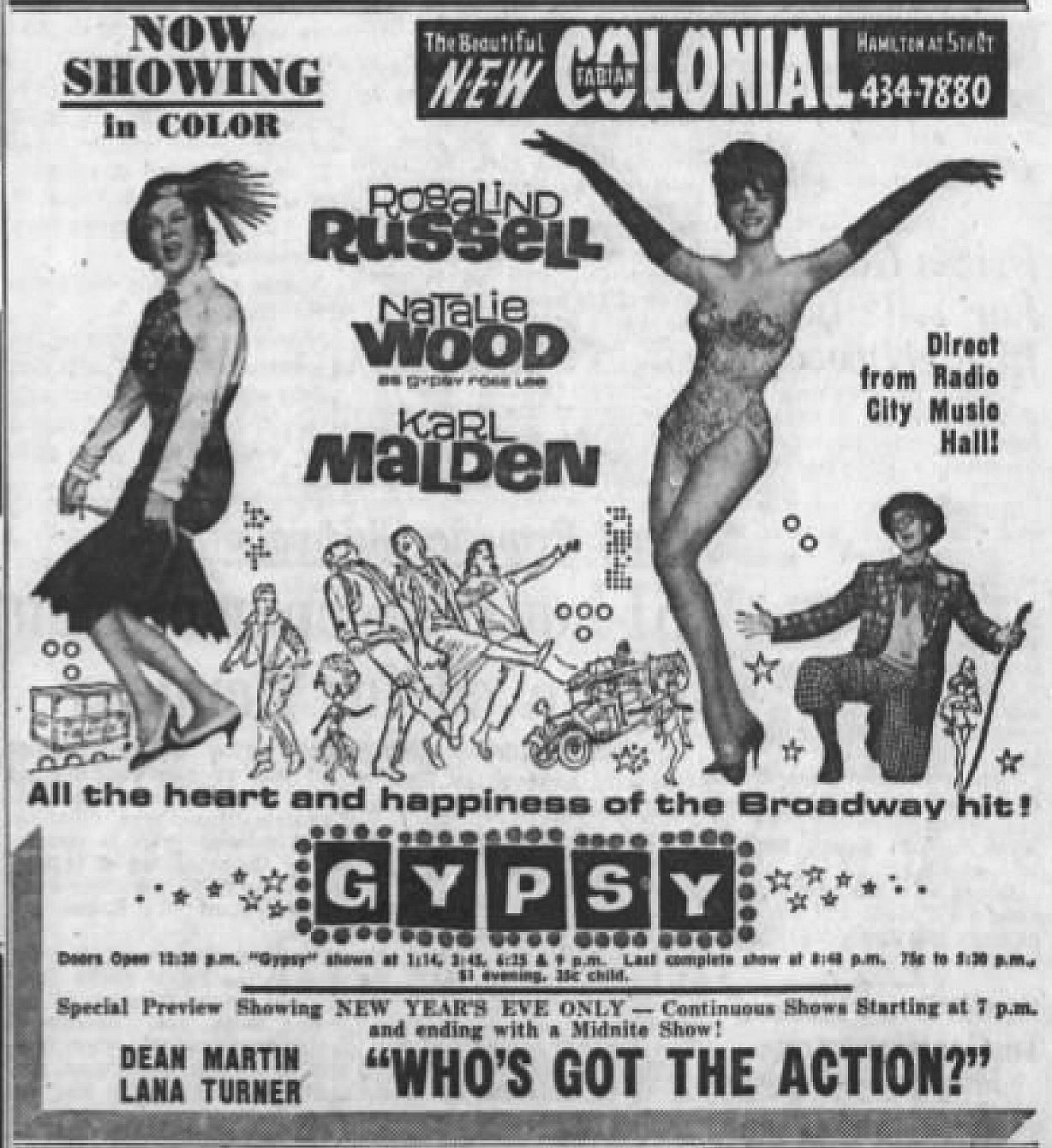 Colonial Theater advertisement for the American musical film Gypsy (1962) - 28 Dec. 1962 Morning Call, Allentown PA